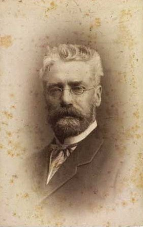 Danish landowner, politician, and art collector Johannes Hage (1842-1923)